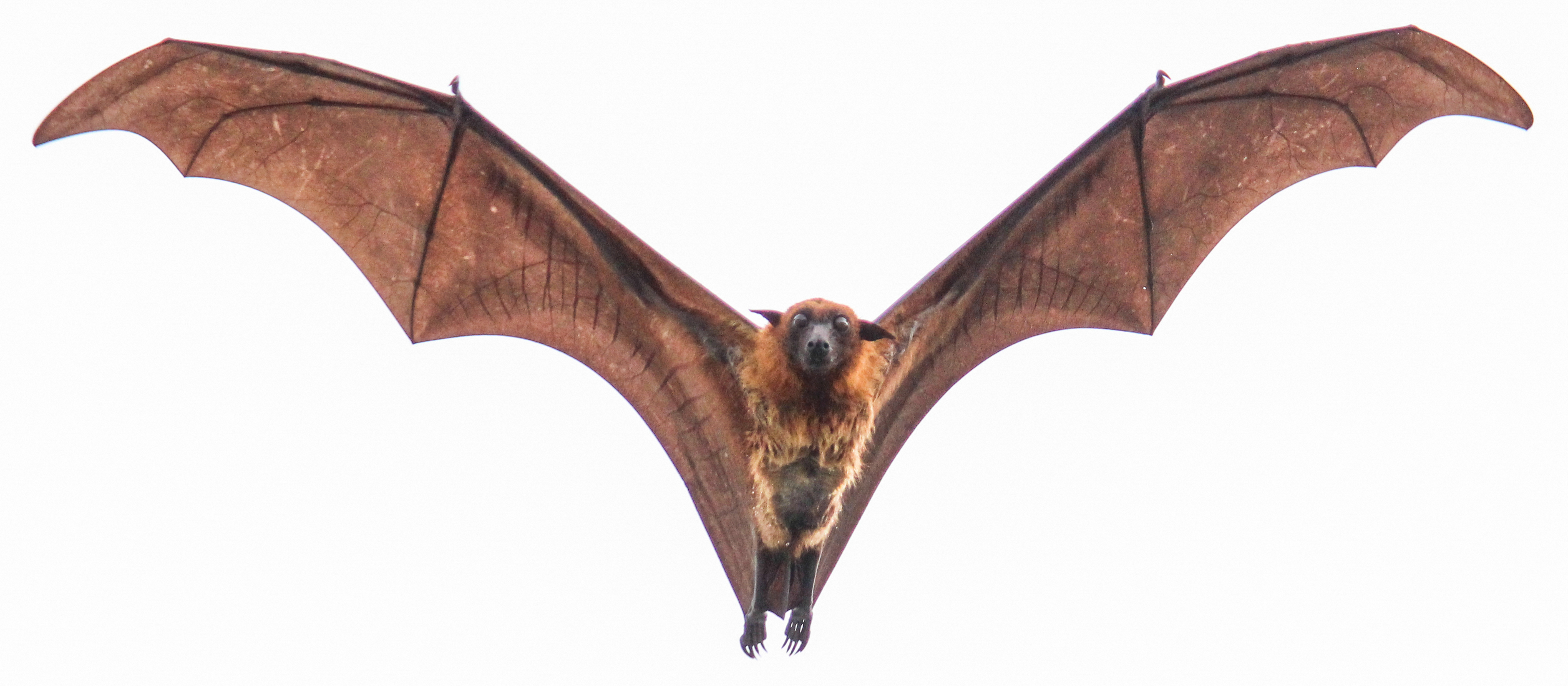 its a great experience to shoot Indian flying fox and interacting with them like this.